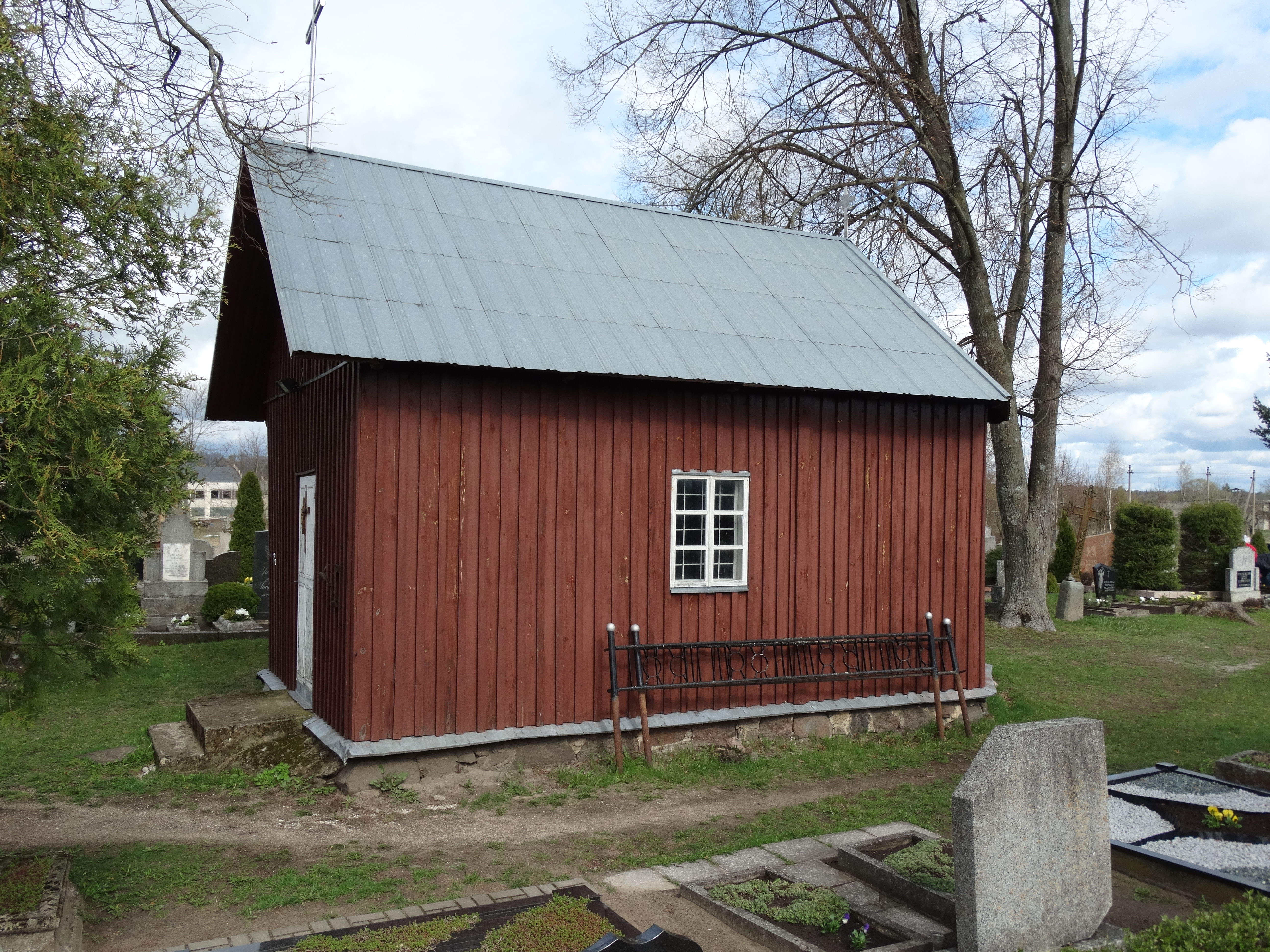 Cemetery chapel, Darsūniškis, Lithuania